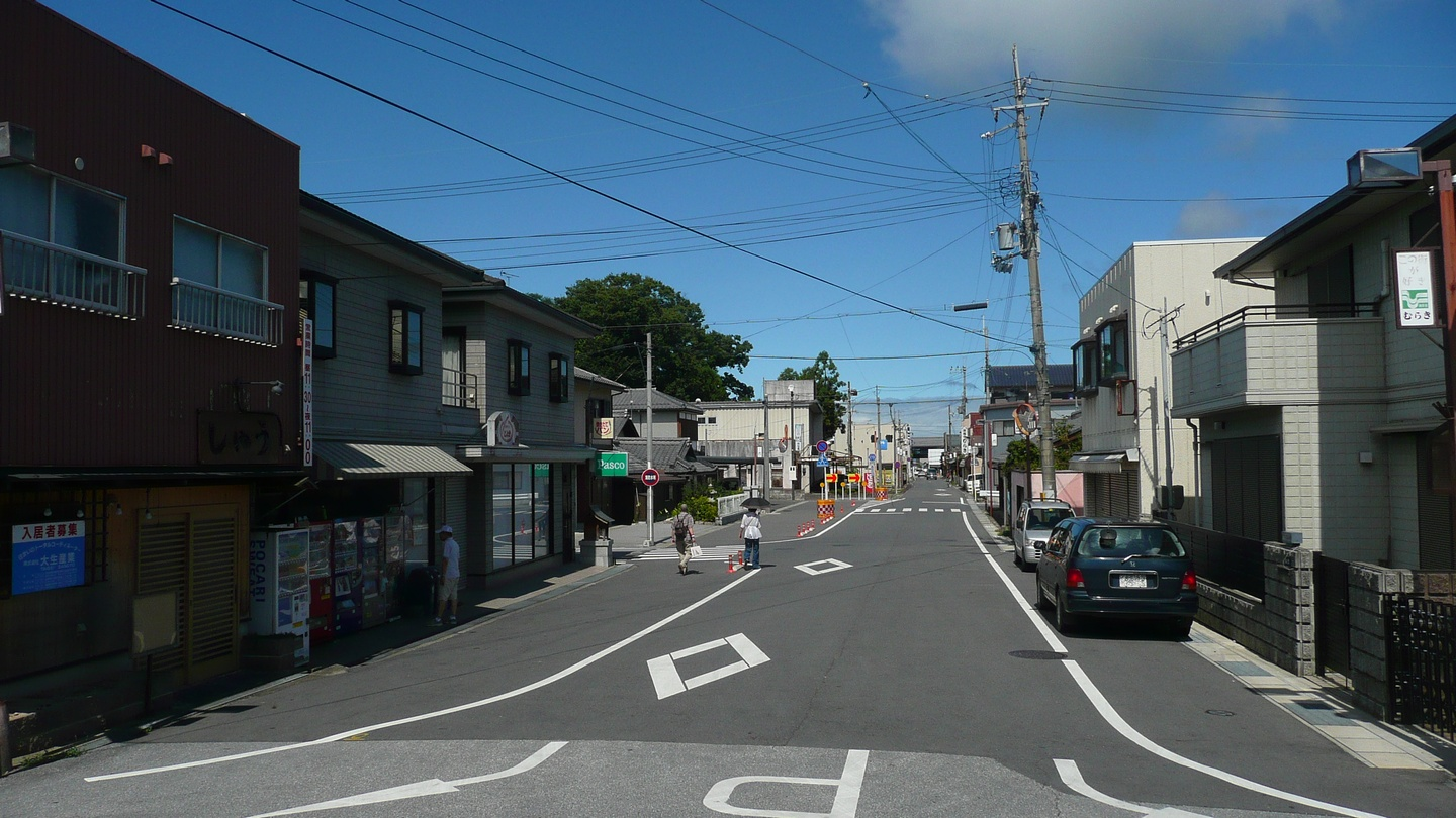 Shiga Prefectural Road No.219 Toyosato Station Line (Toyosato Town, Shiga, Japan)